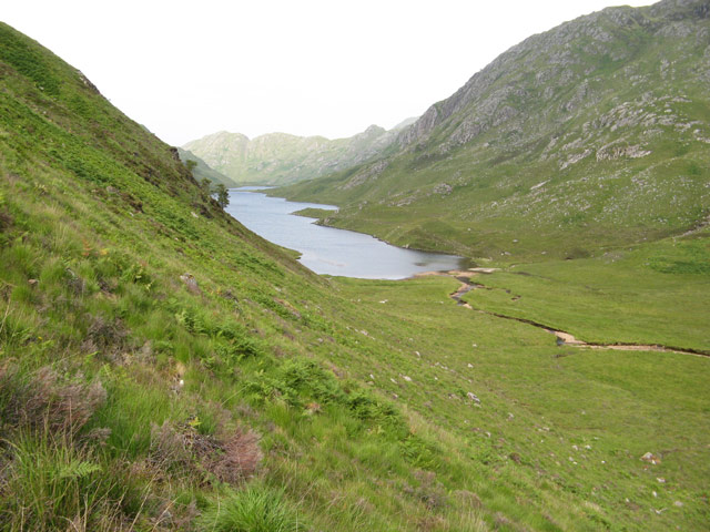 Head of Loch na Creige Duibhe Looking down the beautifully ice-gouged valley occupied by the two lochs.